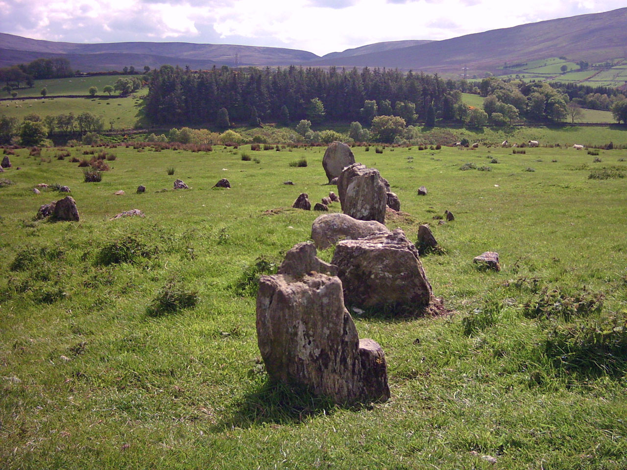 Stone Row at Auglish, Co. Derry, Northern Ireland.